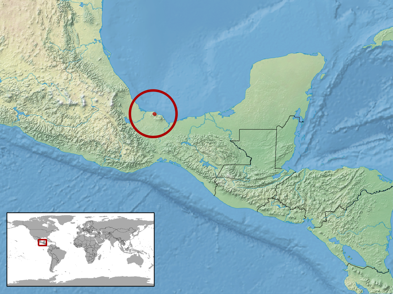 geographic distribution of Abronia reidi (Native: Mexico)